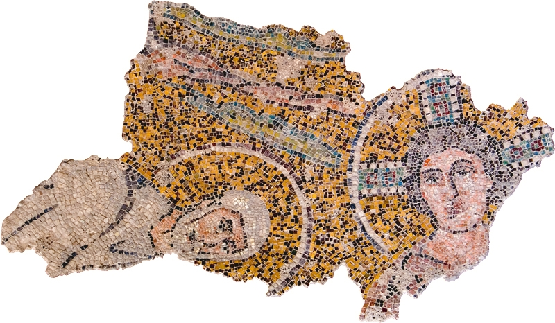 Mosaic fragment from the Church of Santa Maria del Canneto in Pula, Croatia